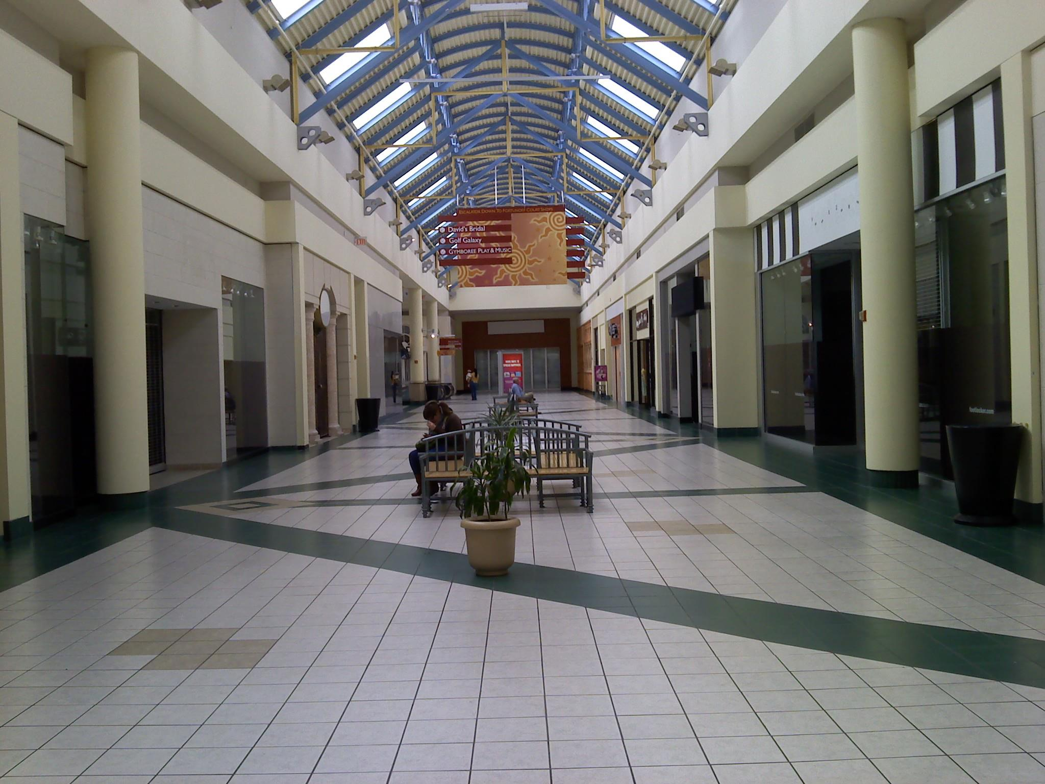 Mall at the Source, an American mall in Long Island, New York